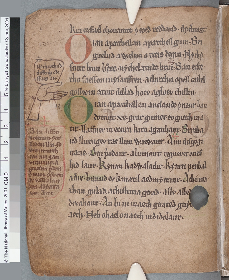 A page from the Black Book of Carmarthen, thought to be the earliest surviving manuscript written solely in Welsh. The manuscript contains mainly Welsh Poetry.